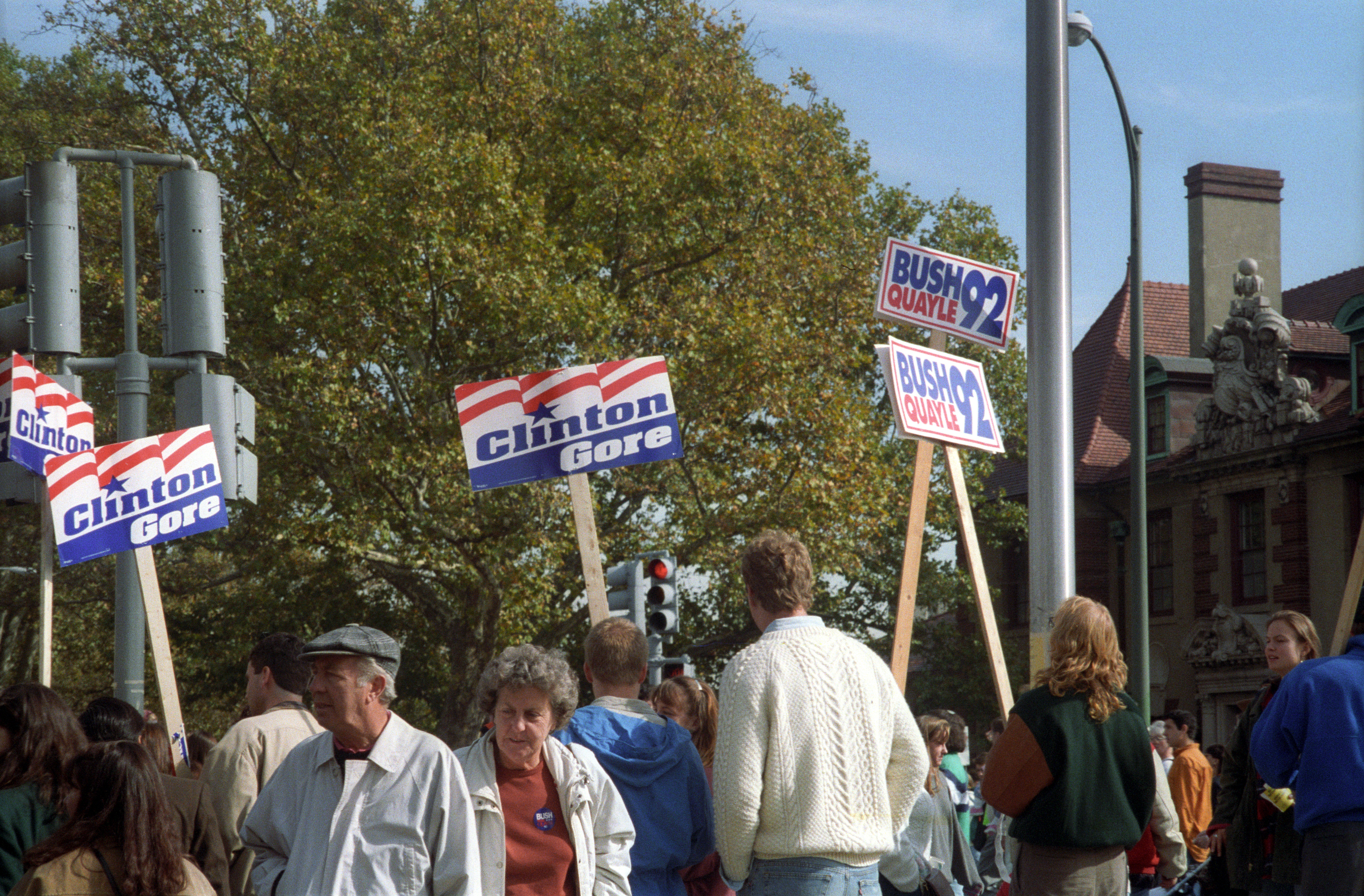 Election time, autumn of 1992